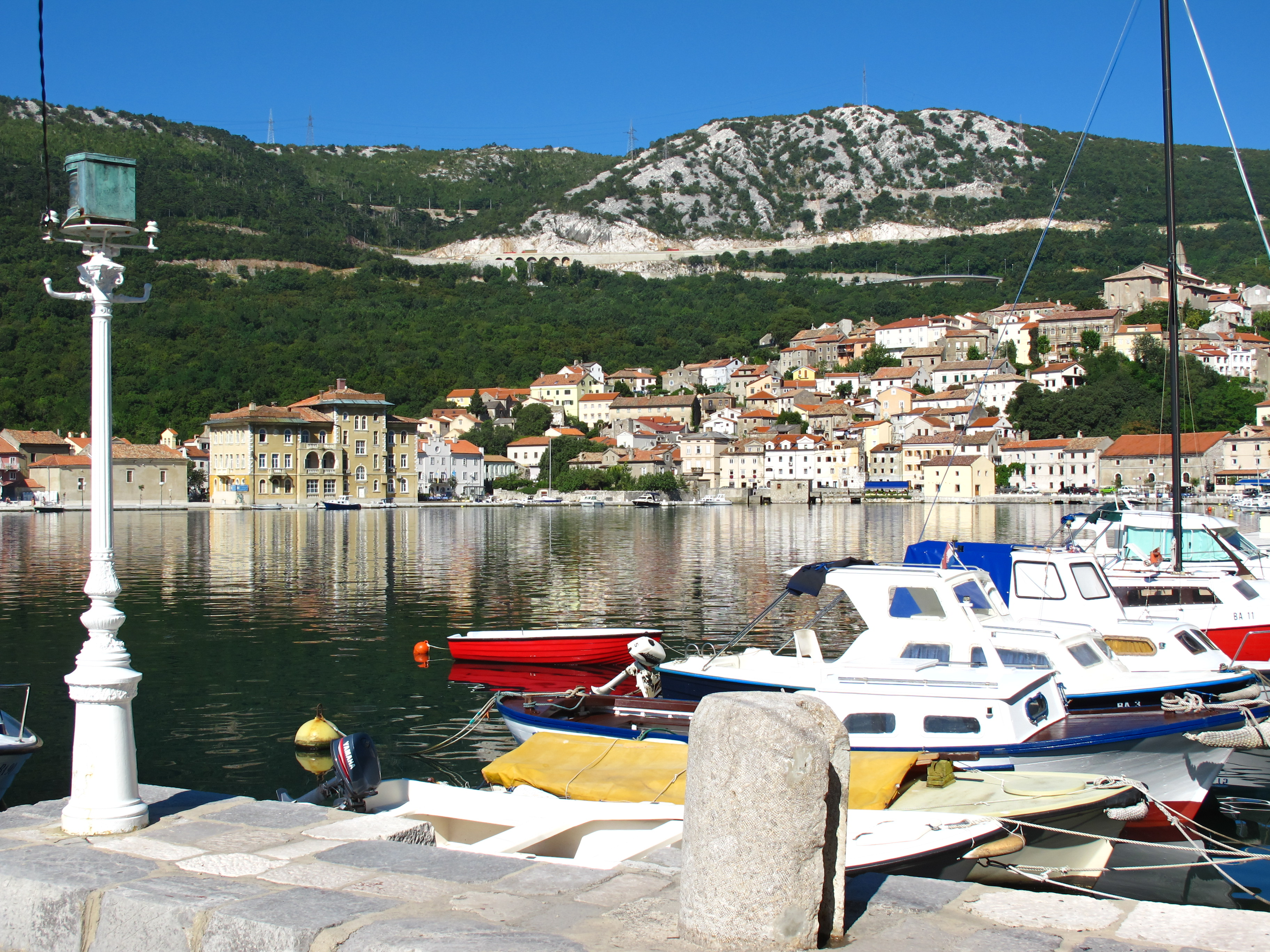 Barkar at Bay of Bakar / Croatia / Adriatic Sea. Left Front of the oldest hotels in Croatia, the "Jadran". Back of the mountain runs down the Adriatic Highway (Adriatic coastal road).